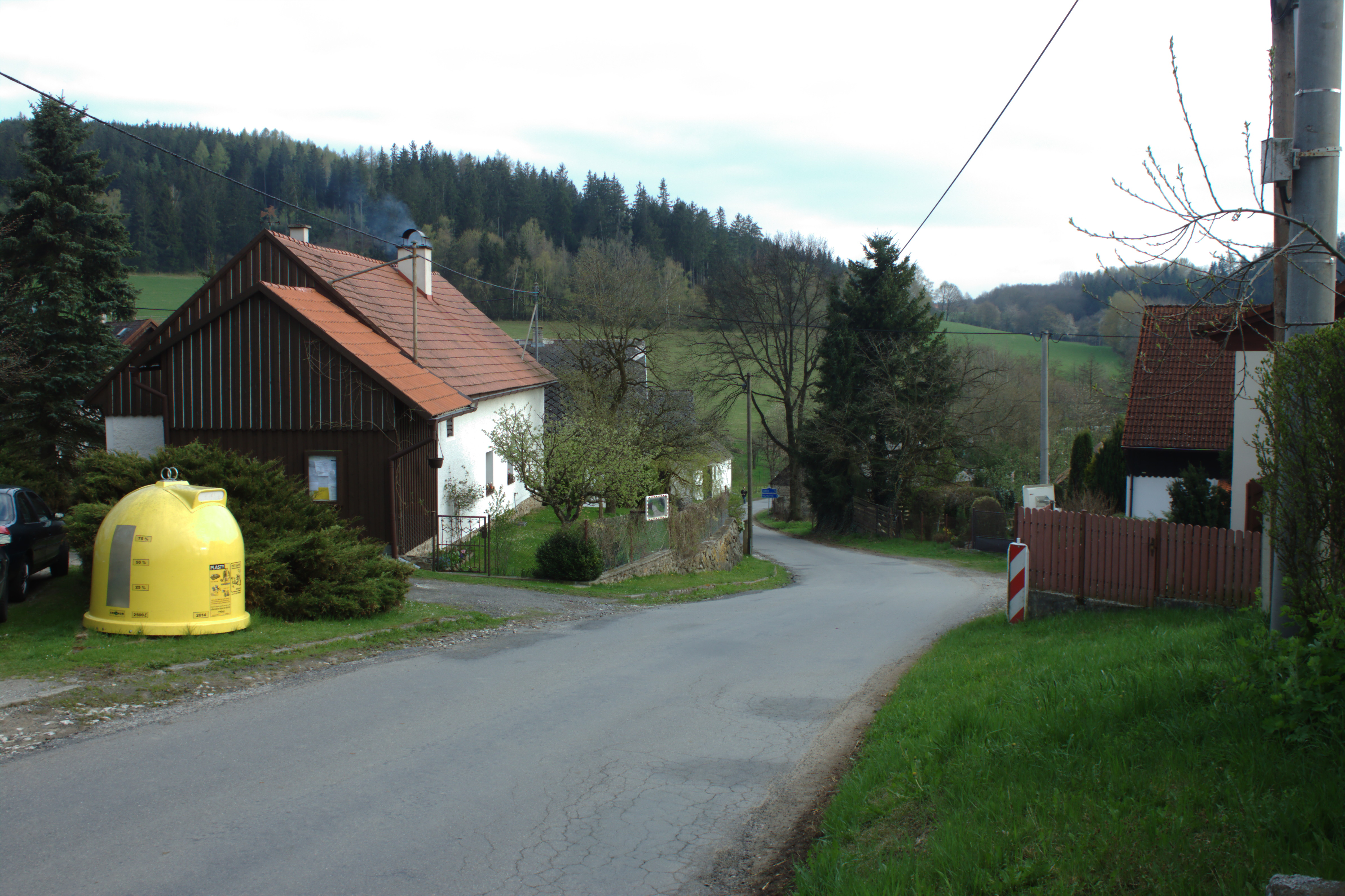 Main road in the village of Drouhavec, Plzeň Region, CZ